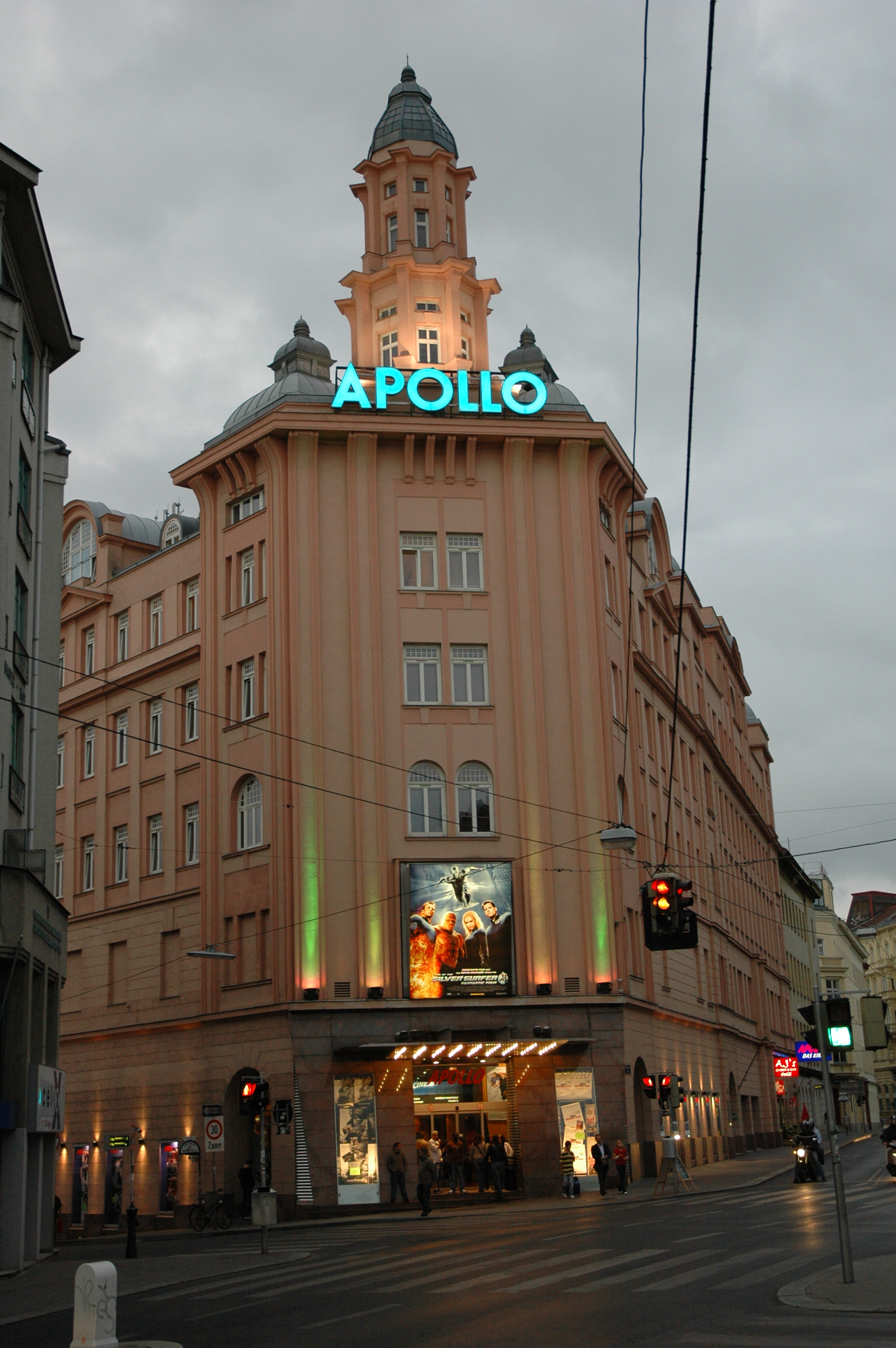 Apollo Kino in Wien-Mariahilf